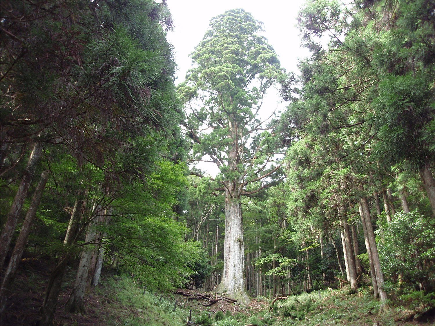 Taro-sugi is a famous Cryptomeria japonica tree in Izu, Shizuoka Prefecture, Japan.